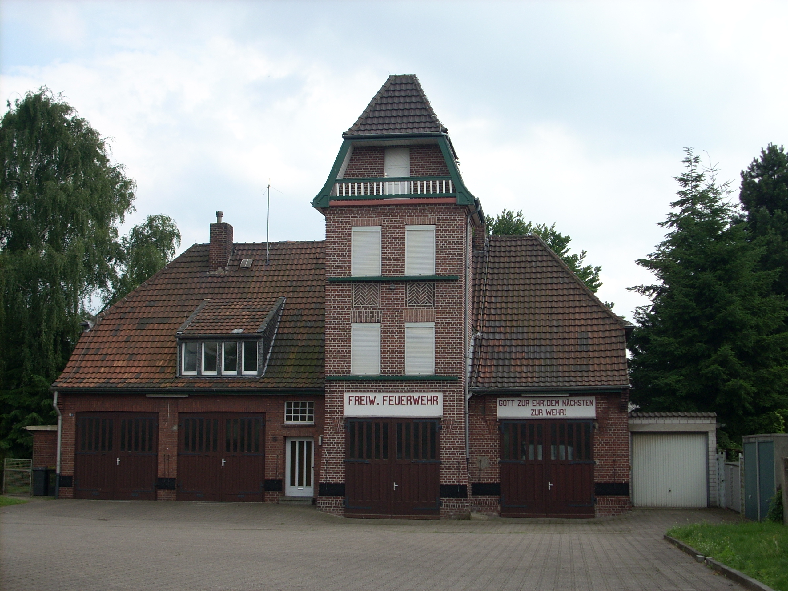 The Fire Station of the voluntary fire brigade Duisburg-Baerl